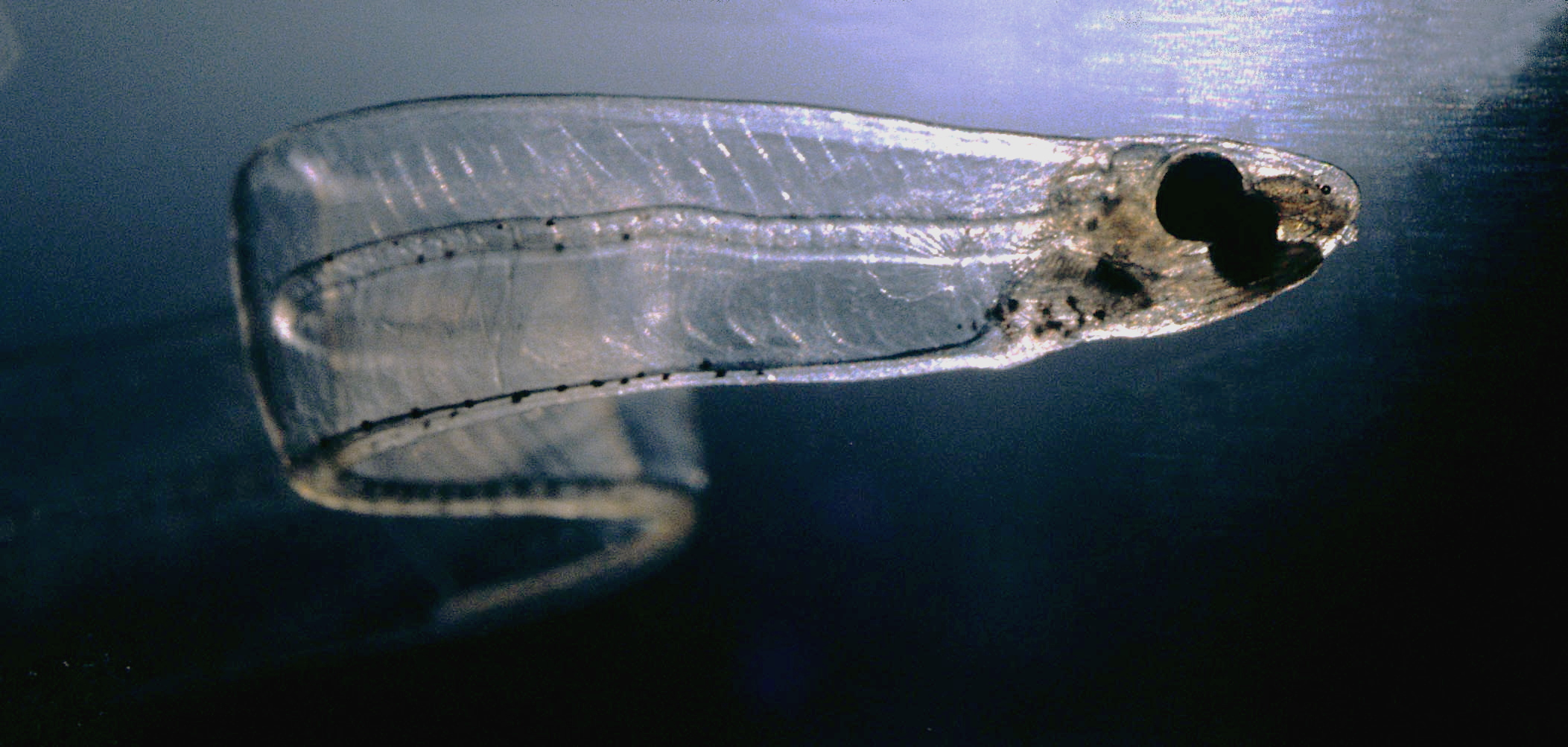 Leptocephalus larva of a conger eel 7.6 cm (Photo by Uwe Kils) - larger image on 画像:Leptocephalus.jpg